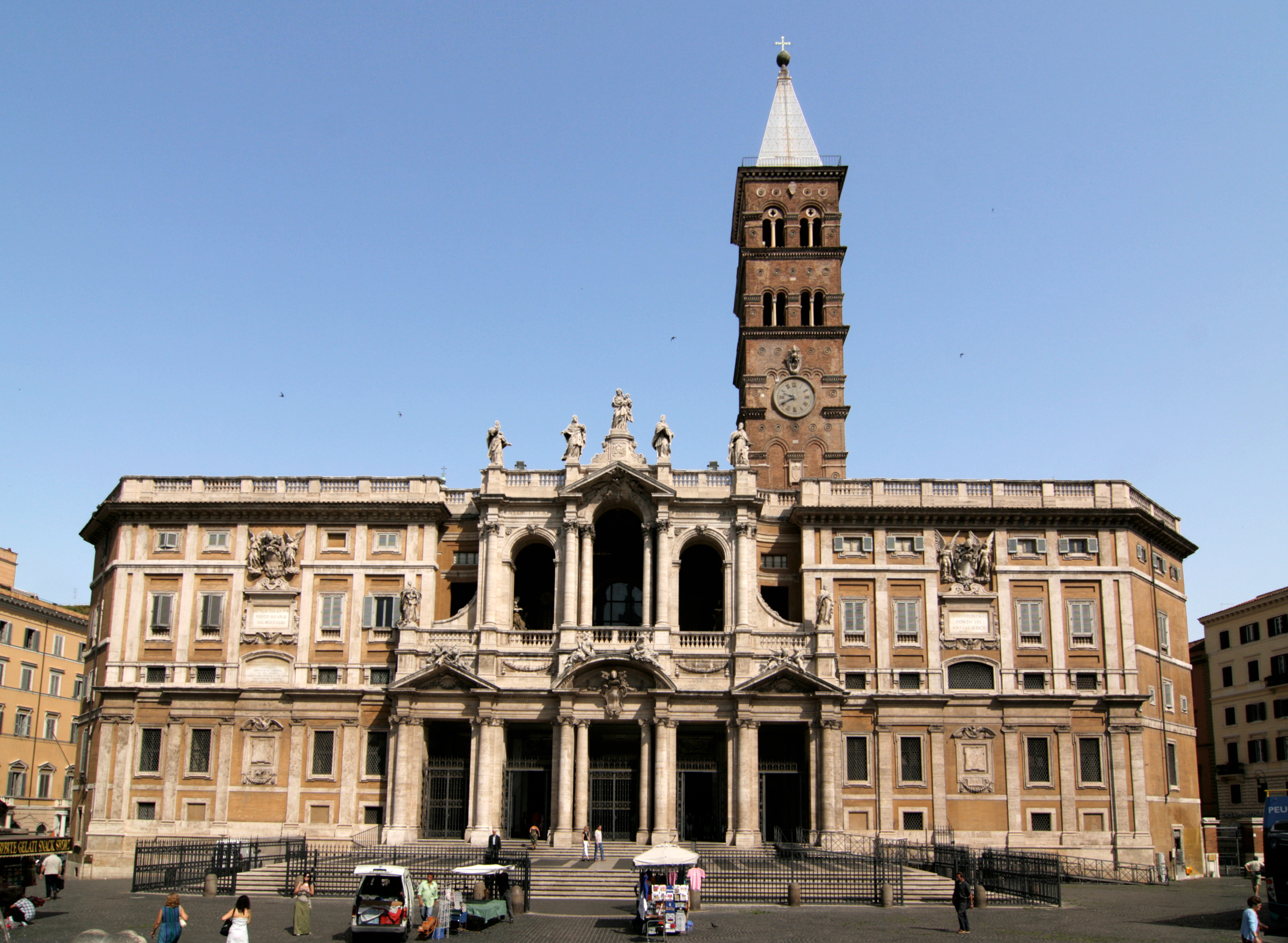 Santa Maria Maggiore Rome